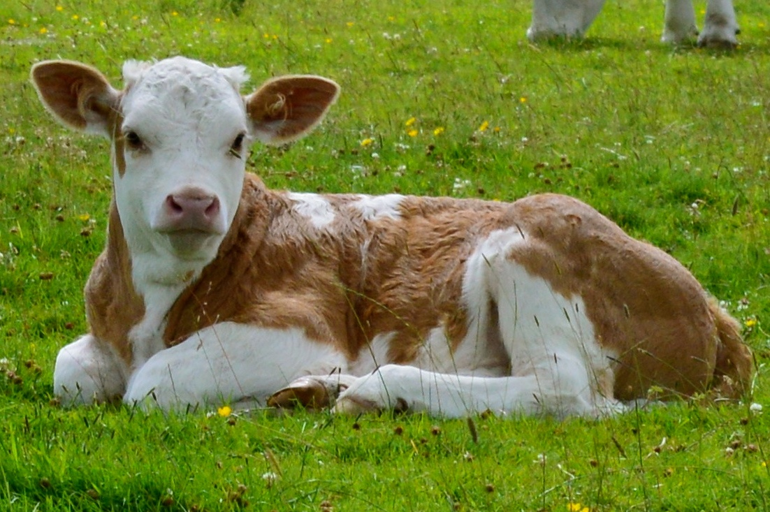 Cute Calf!!